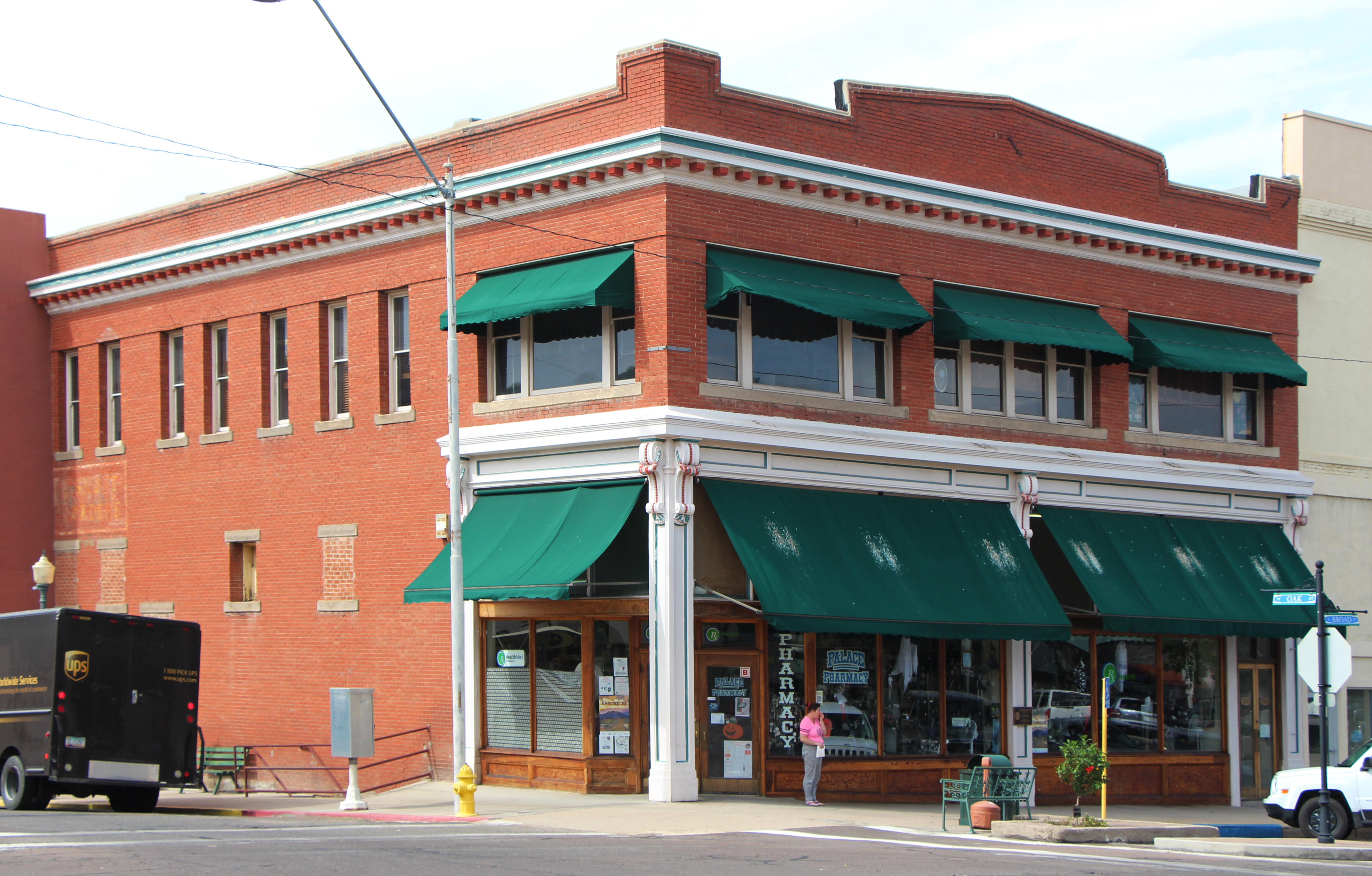 Amster Building, northwest corner of Oak Street and Broad Street